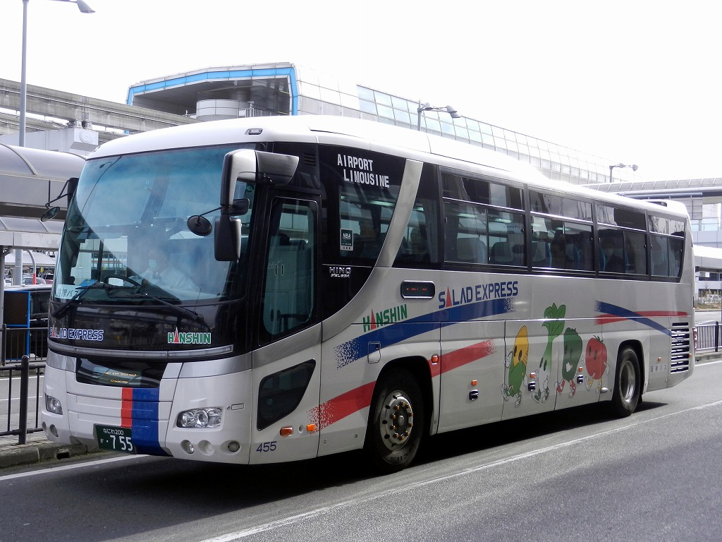 Hanshin bus (Osaka Itami airport rimousine bus) Hino S'ELEGA (PKG-RU1ESAA)